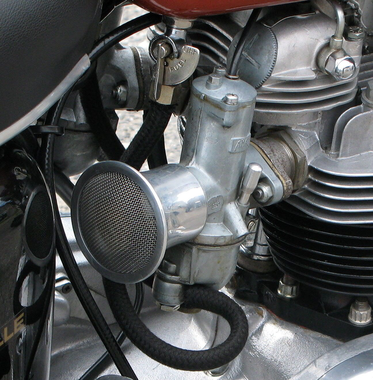 Amal Concentric carburettor fitted to a Triumph Bonneville. The second carburettor fitted to this splayed-head model can just be seen in the background